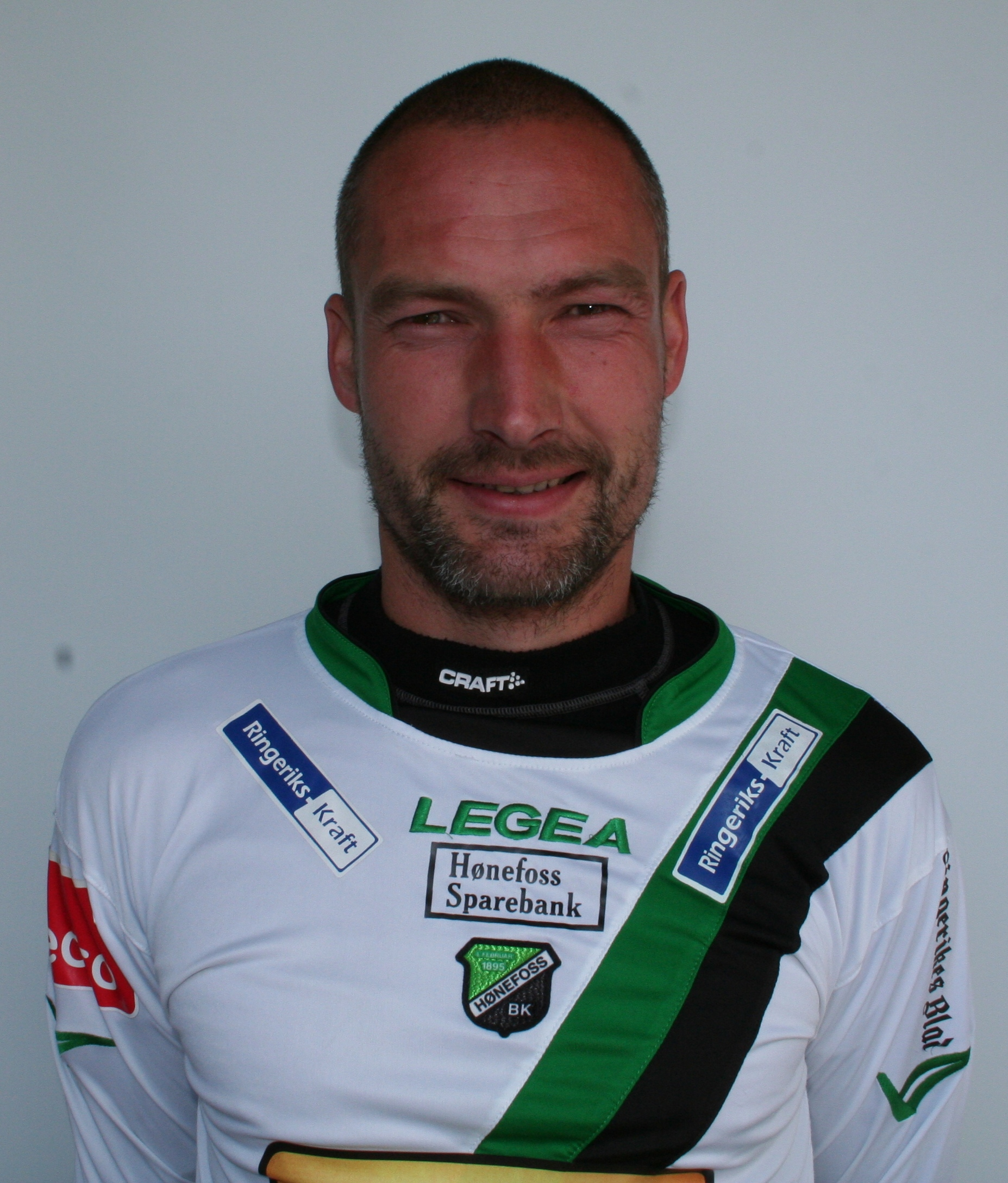 Frode Lafton, norsk fotballspiller som spiller for Hønefoss Ballklubb.